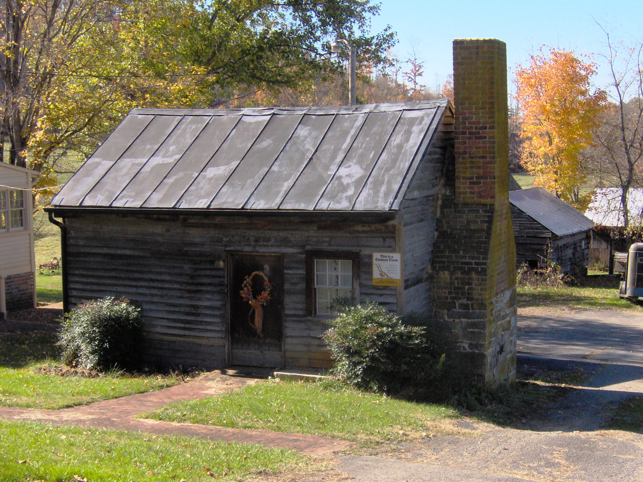 Slave cabin and kitchen at the Maden Hall Farm near Greeneville, Tennessee, USA.